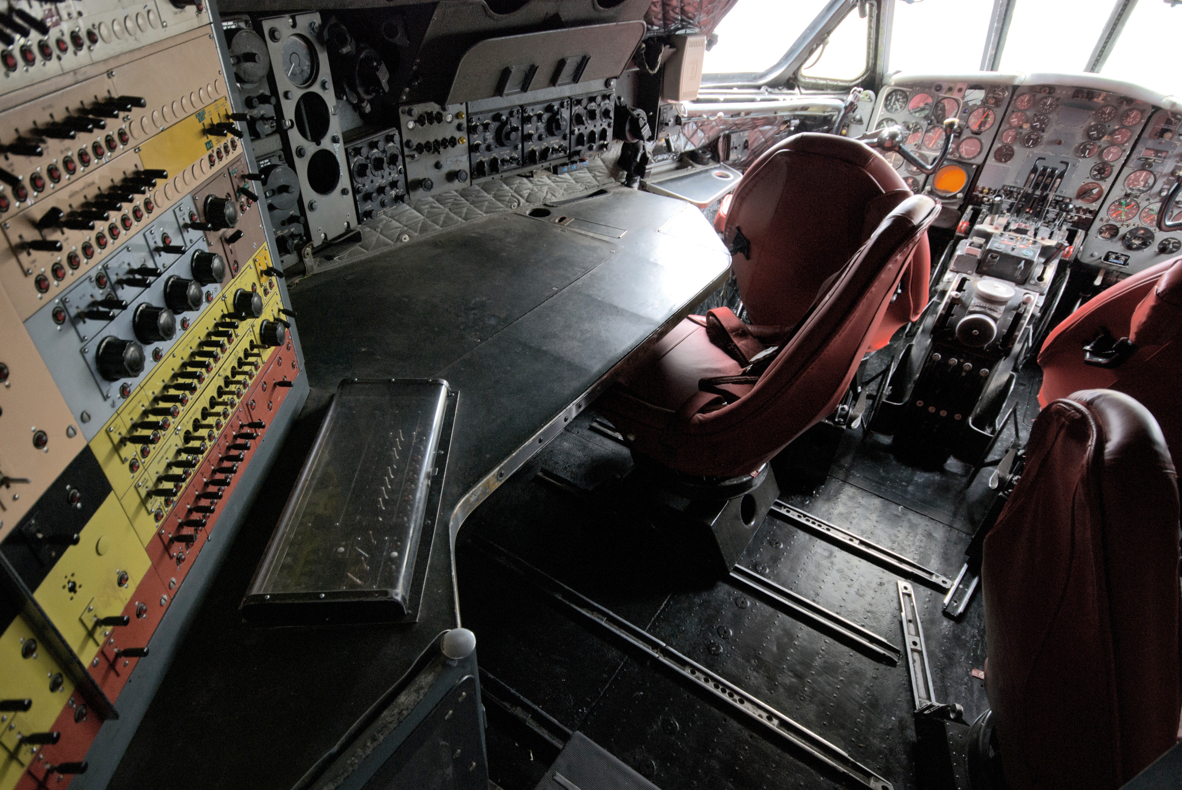 Picture of the cockpit of a DeHavilland Comet 4 simulator, from the De Havilland Museum near St Albans. The banks of switches on the left, on the coloured background, were for the instructor to control the simulator. The simulator was built in the fuselage of an earlier model of Comet.